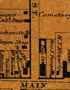 A zoomed in map from 1860 of the First Presbyterian Church of Marcellus.